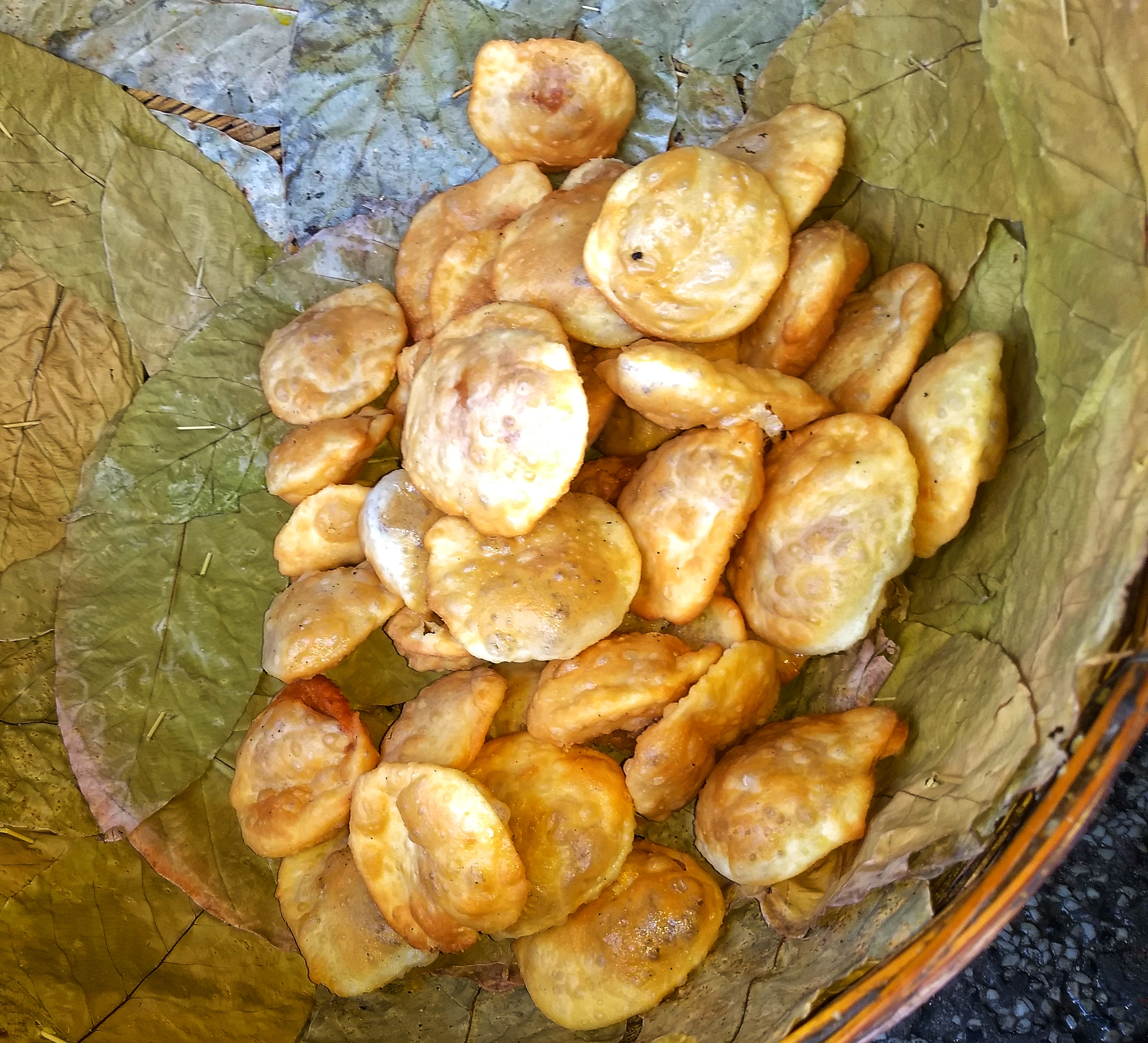 Nabadwiper kochuri